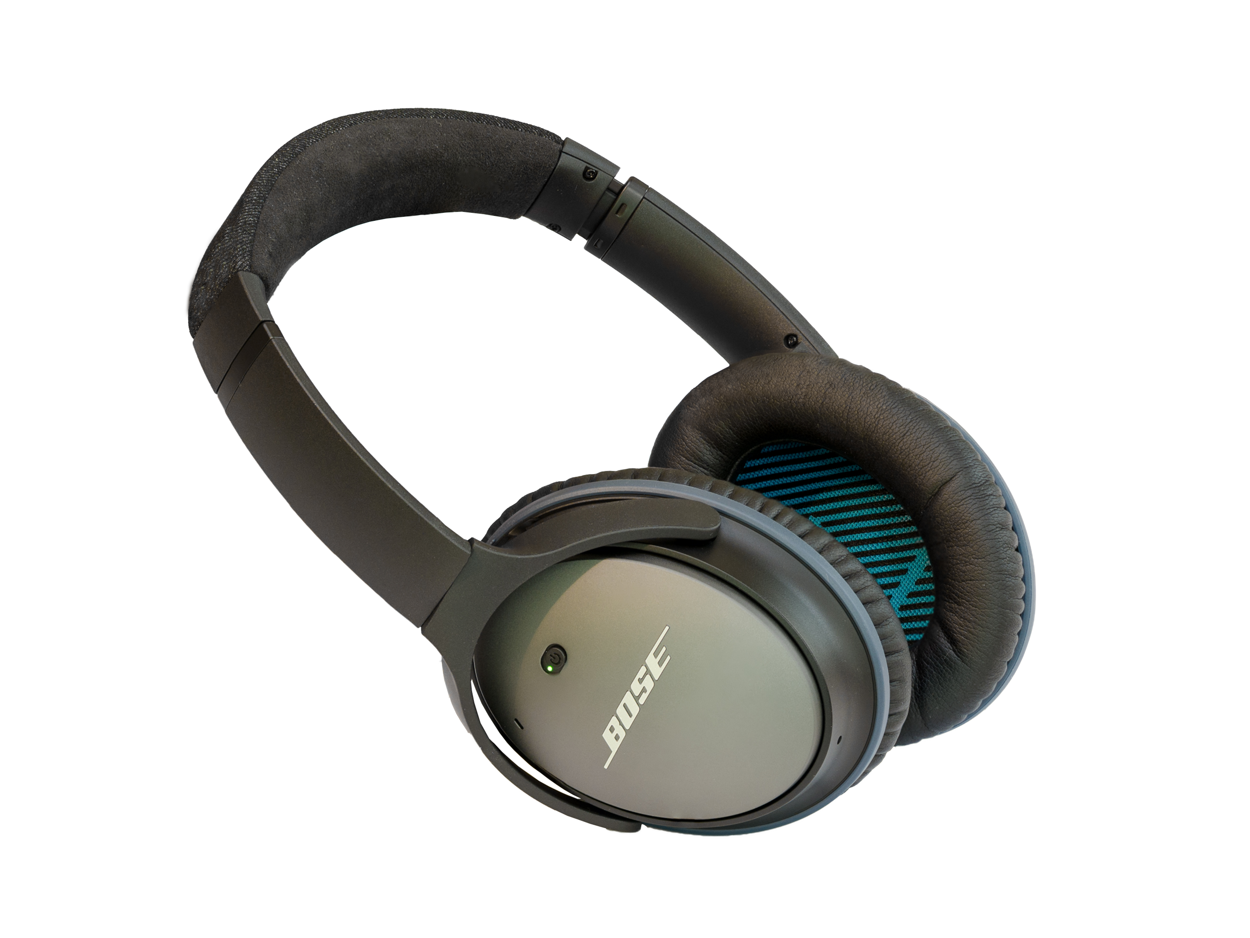 Bose QuietComfort 25 Acoustic Noise Cancelling Headphones